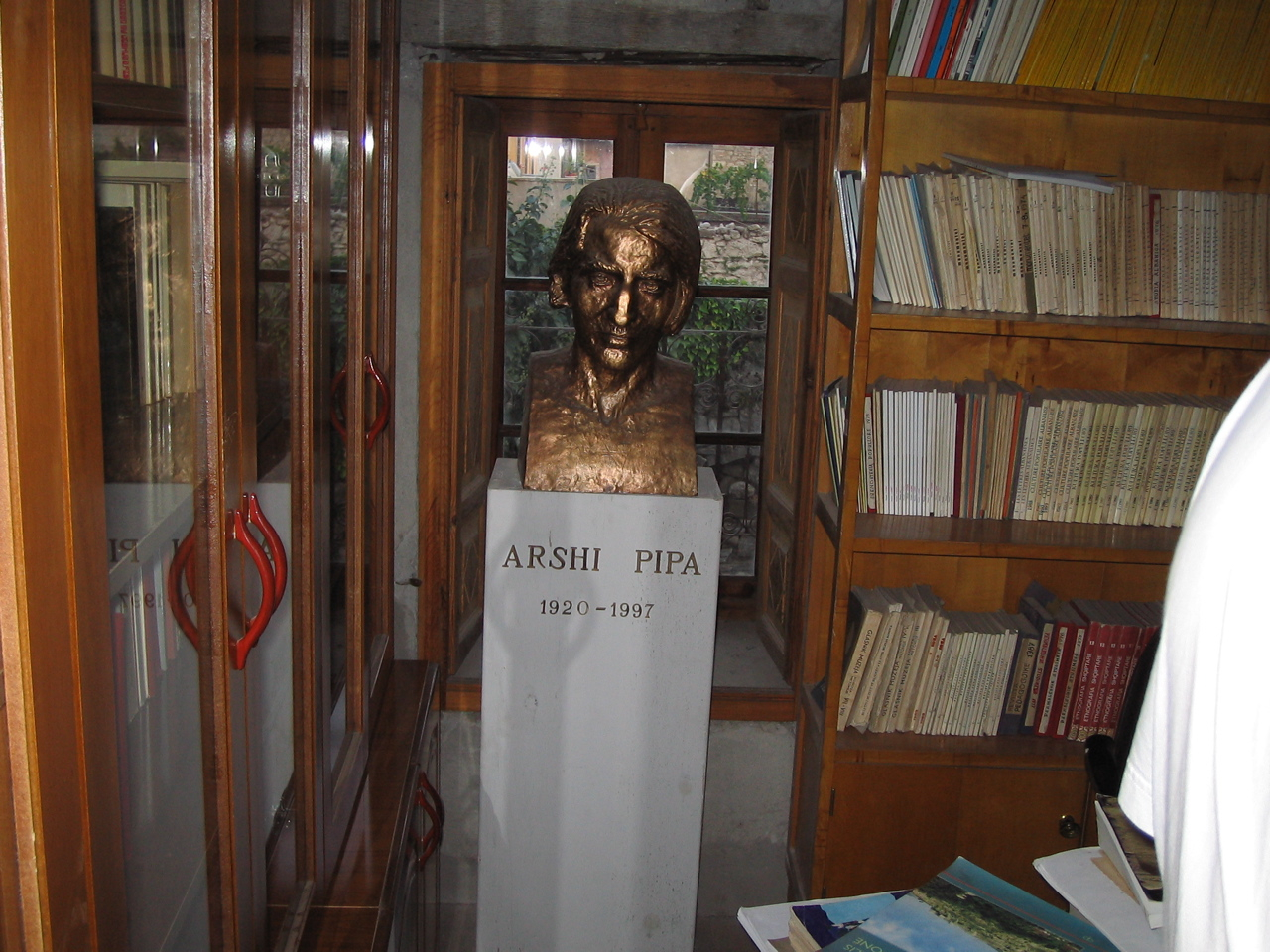 Archeological Museum Shkodra: Bust of Arshi Pipa